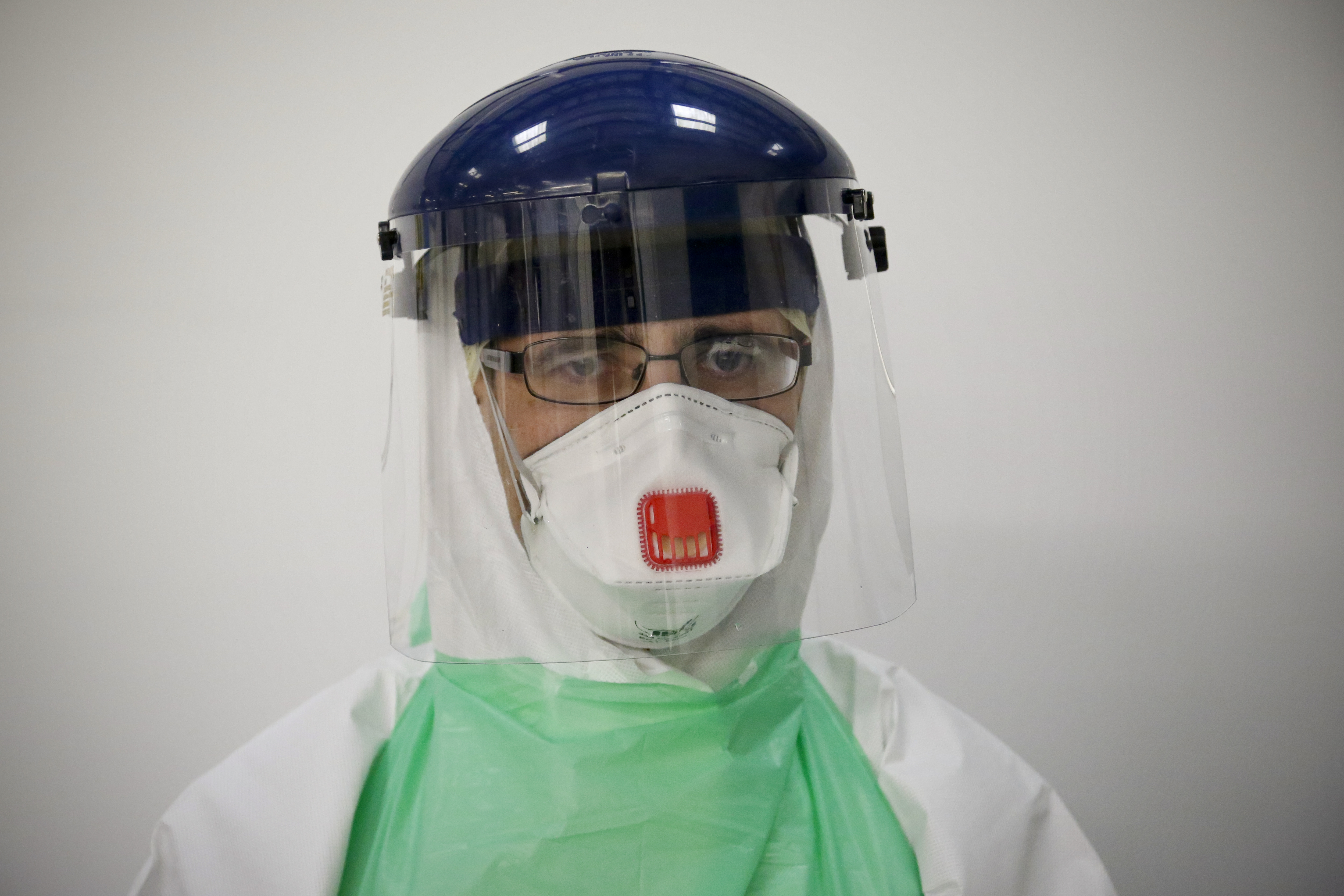 Dr Roger Alcock is a consultant in emergency and pediatric medicine. He's one of the many medics from across Britain's National Health Service who are joining the UK's fight against Ebola in Sierra Leone. He works at the Forth Valley Royal Hospital, Larbert, in Scotland - but this is not the first time he's volunteered to help abroad: "I've previously worked at a Scottish government initiative in Malawi, helping to develop emergency medicine at the hospital in Blantyre." Like all the medics heading to Sierra Leone, he is committed to his profession and the cause: "My father was a doctor and did his utmost to encourage me to consider other options, but the bottom line is that I'm quite a people-person and it's a complete privilege to get to look after them." Find out more about the medics behind the mask in our special feature: bit.ly/medicsbehindthemask Picture: Simon Davis/DFID Free-to-use photo This image is posted under a Creative Commons - Attribution Licence, in accordance with the Open Government Licence. You are free to embed, download or otherwise re-use it, as long as you credit the source as 'Simon Davis/DFID'.